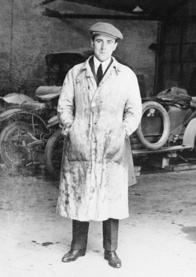 DF Bentley standing in front of a Bentley car Who is DF Bentley and that is Not a Bentley car behind him Who is OW Bentley ?